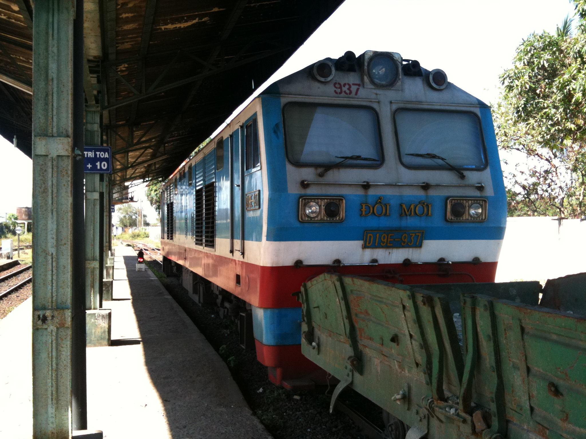 Doi Moi class diesel locomotive D19E-937, hooked up to a train of freight cars, waits at Binh Thuan Station (previously known as Muong Man station), Binh Thuan Province, Vietnam.